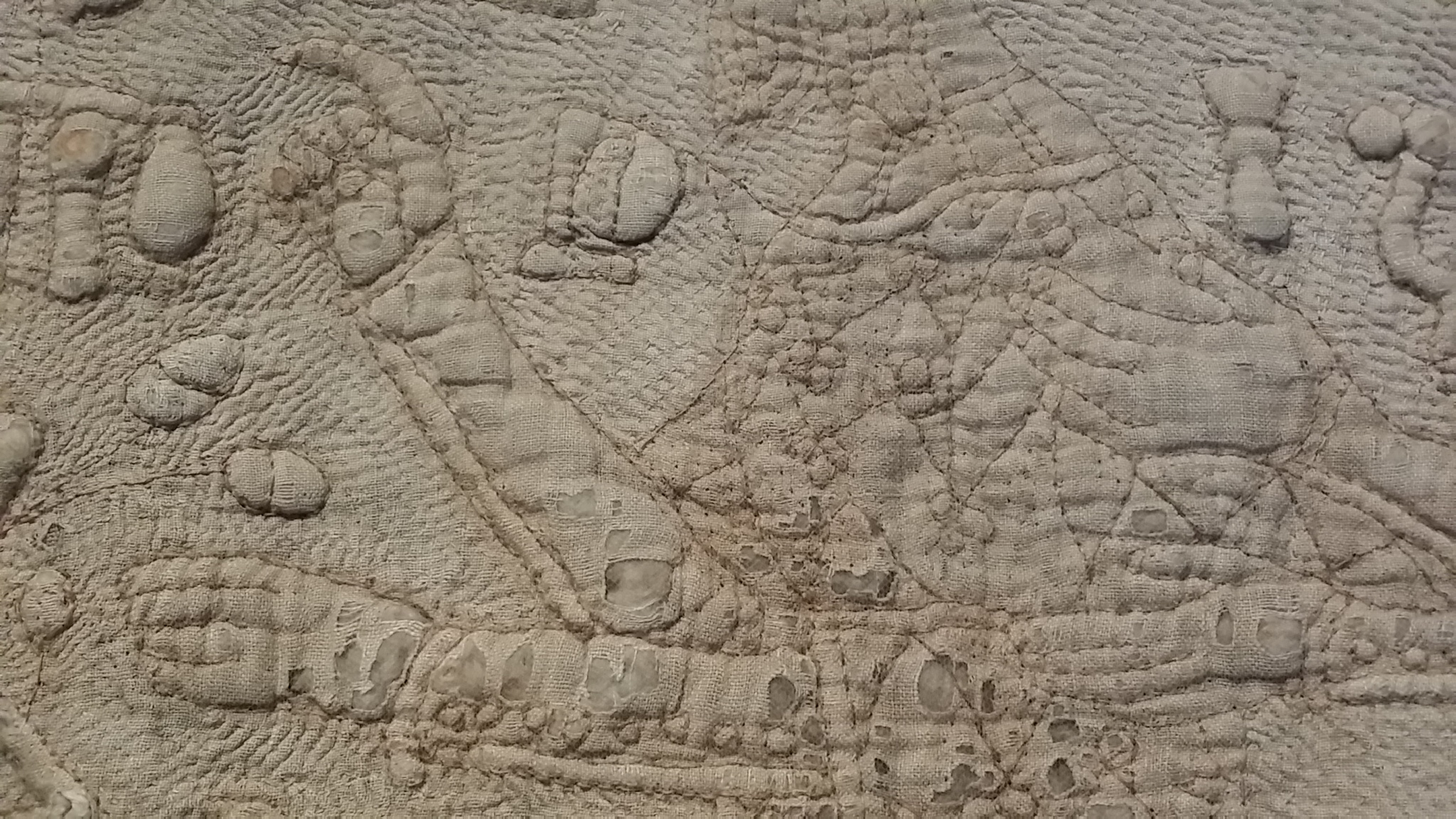 Photograph of the 14th century Tristan Quilt on display at the V&A Museum.